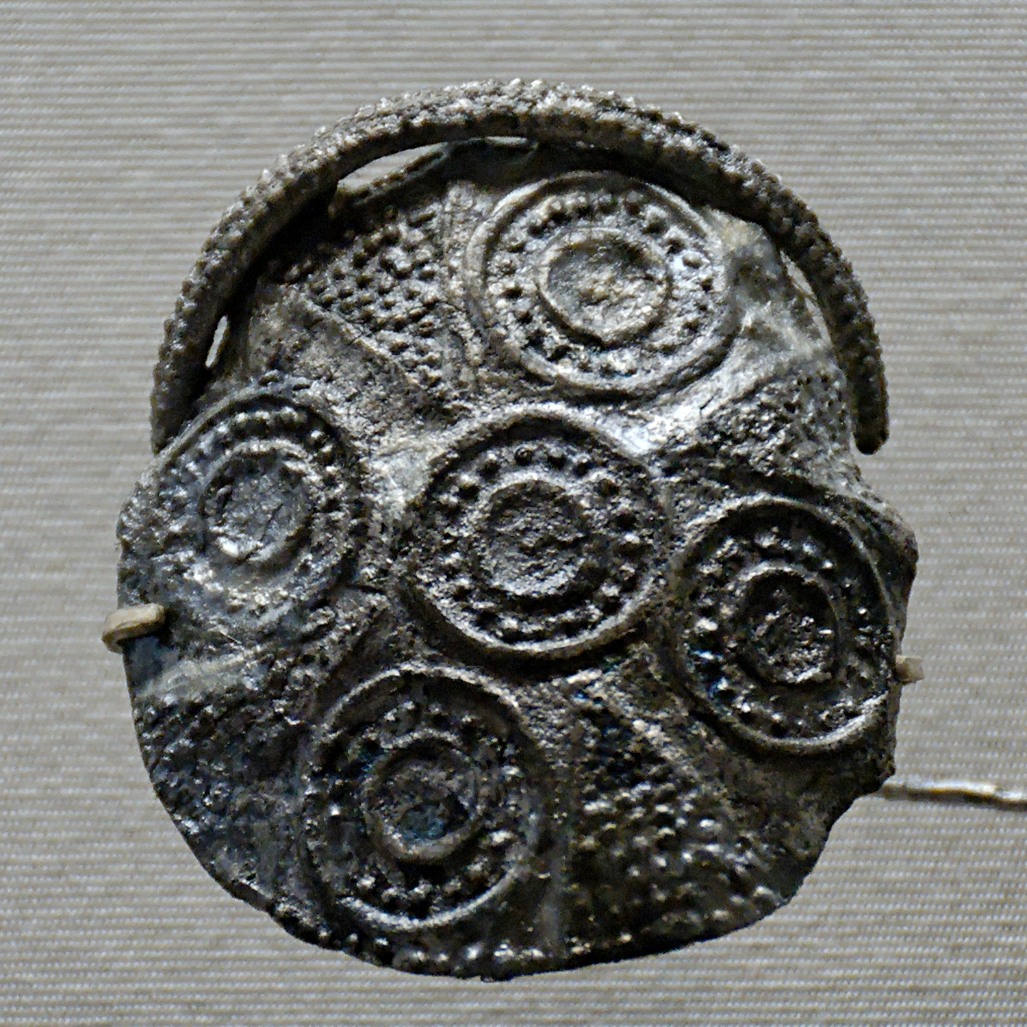 Hair ornament. Silver with repoussé decoration, 11th–8th centuries BC. Found in Tepe Sialk, Necropolis B, tomb 100.